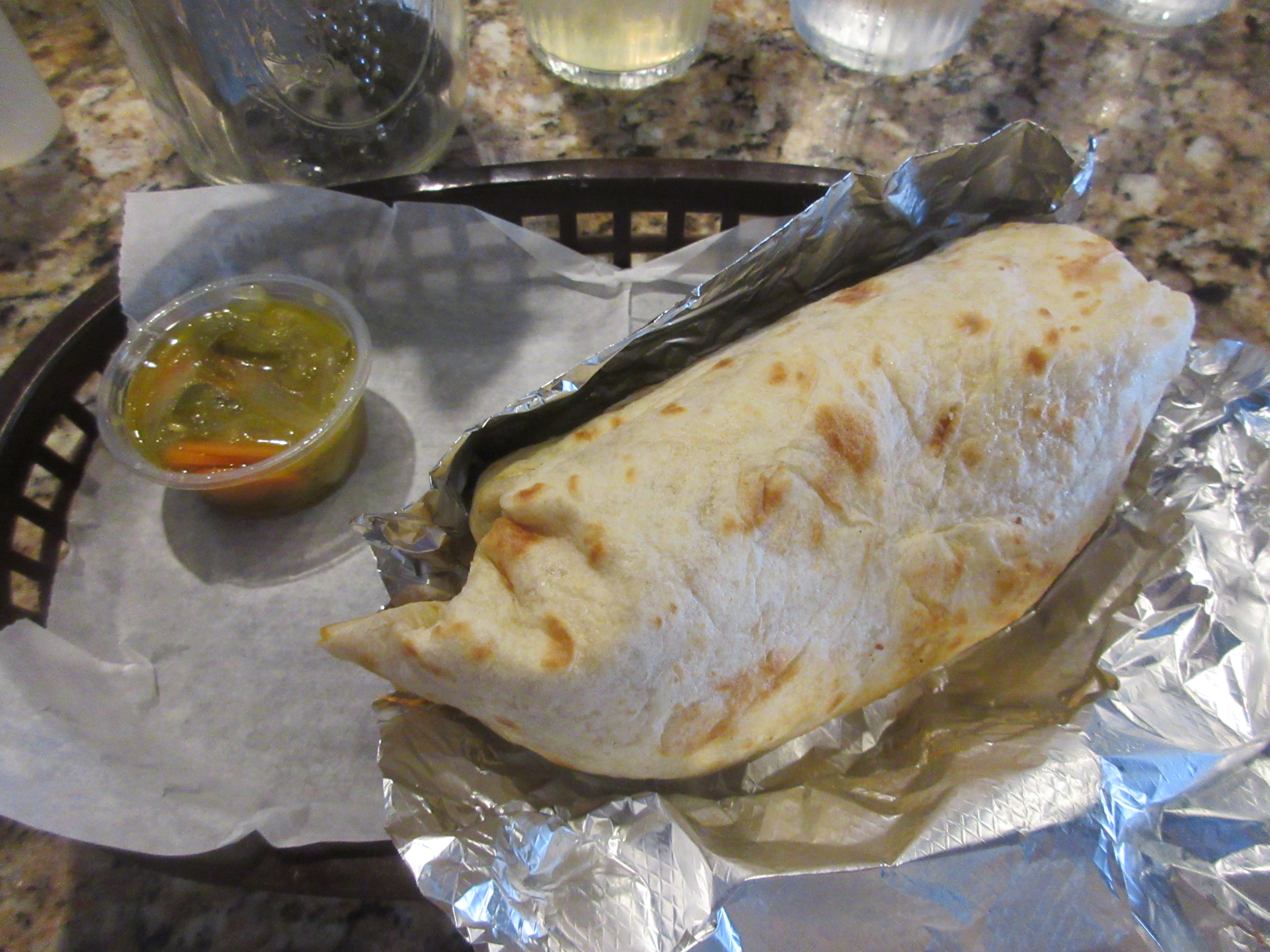 "Hippie Kitchen" restaurant, Jefferson Highway, Old Jefferson, Jefferson Parish, Louisiana. Photo by Infrogmation of New Orleans, August 2018. Free reuse with author attribution in accordance with any of the licenses listed by the author/photographer. Reuse without photo attribution is a violation of copyright.